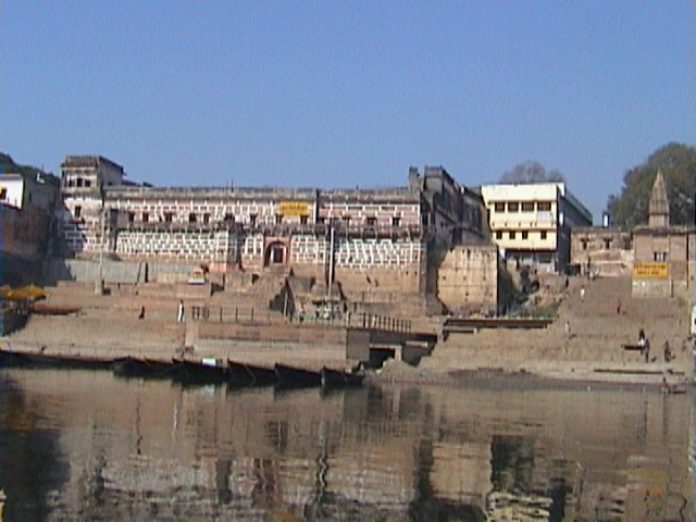 See Varanasi Development Cooperation Handbook/Stories/Responsible Development - Varanasi The Varanasi Heritage Dossier Kautilya Society Mediendatei abspielen Vrinda Dar - How we got involved in heritage protection of Varanasi